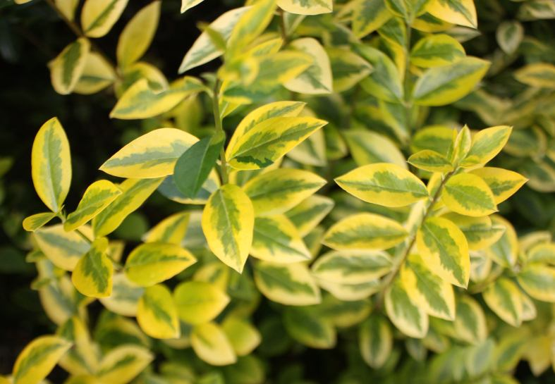 Brno-Komín,Ligustrum ovalifolium, Aureum